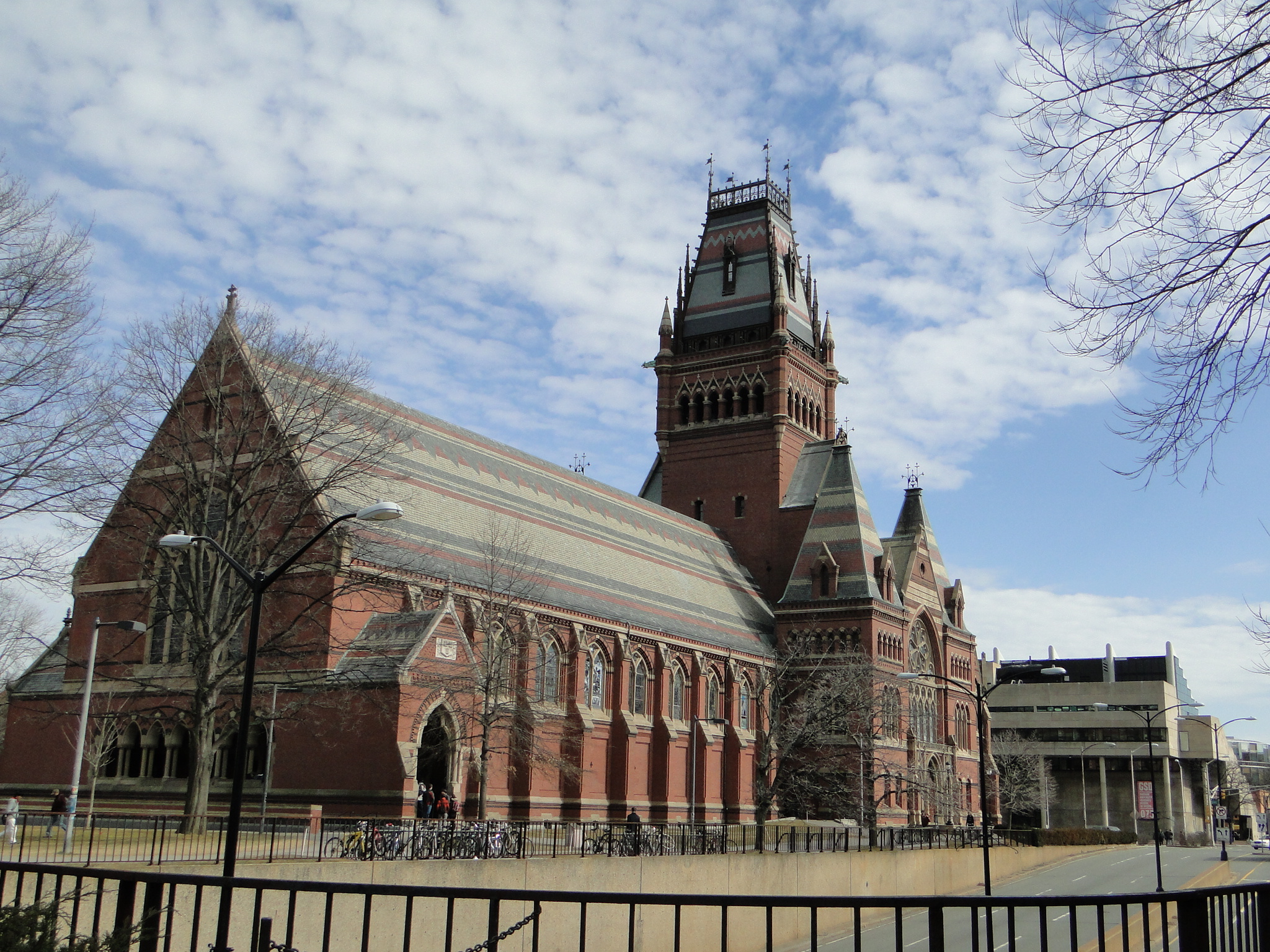 Memorial Hall, Harvard University